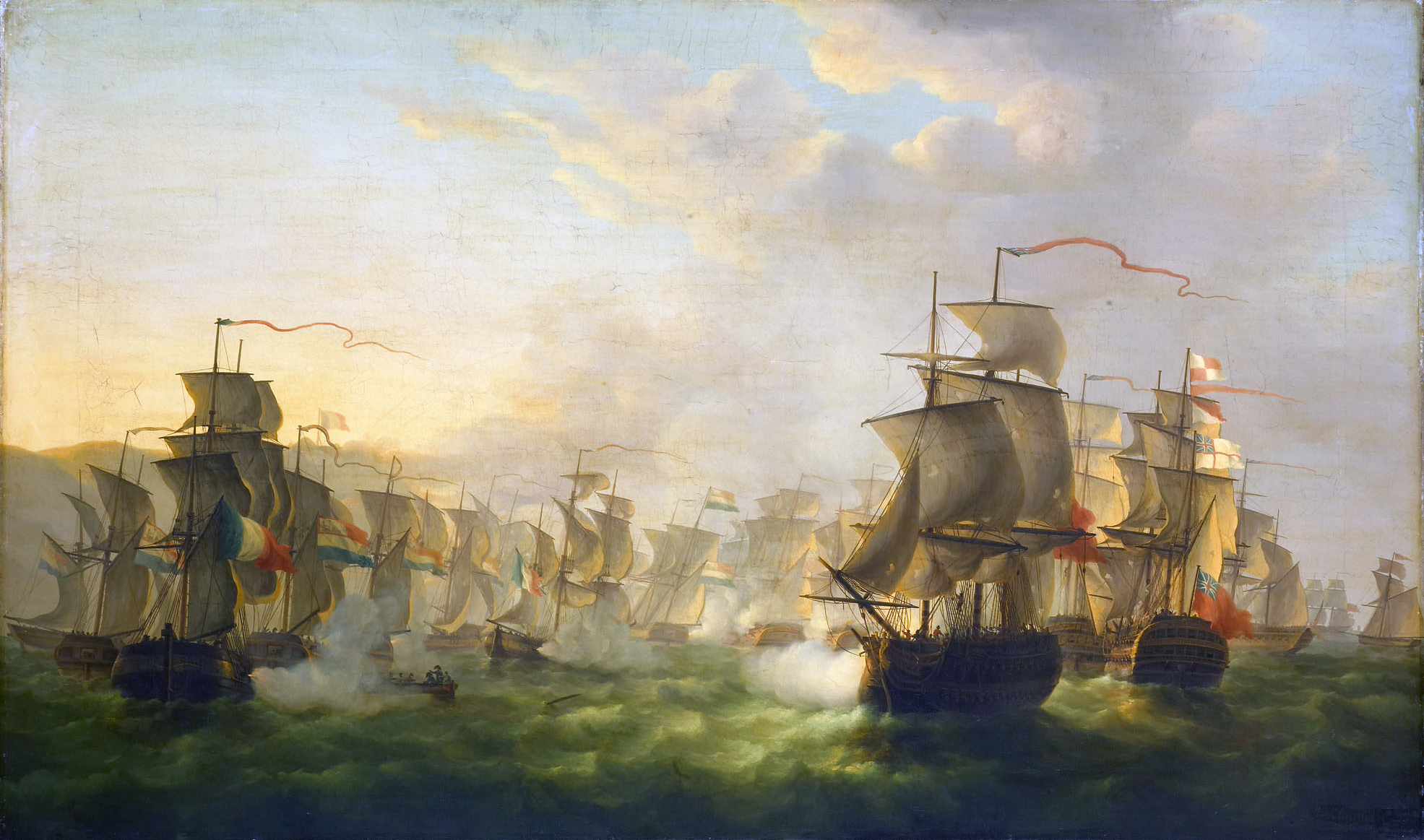 The Dutch and English fleets meet during the trip to Boulogne, 1805